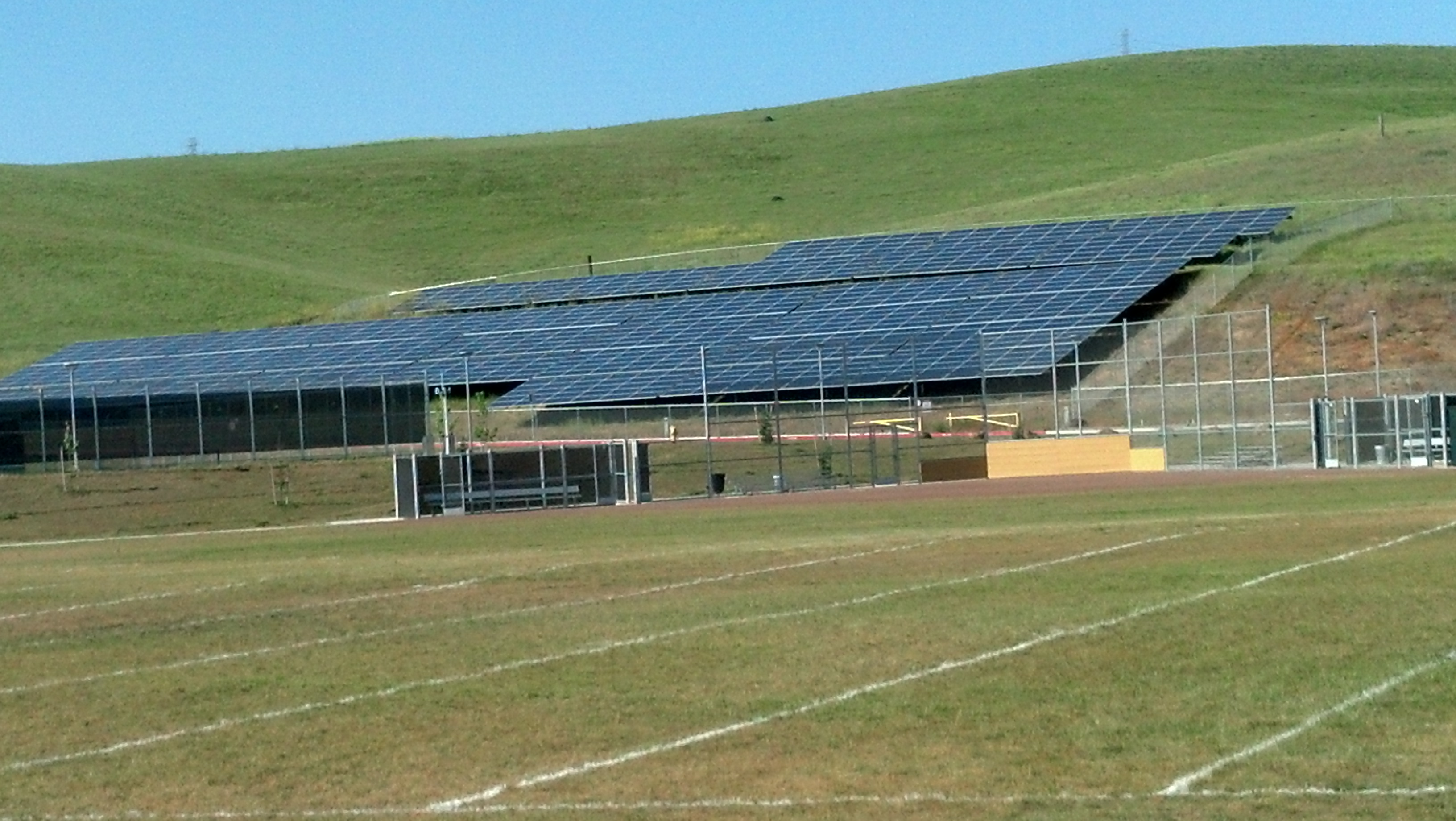 Solar cell panels on the hillside adjacent to athletic fields at American Canyon High School.